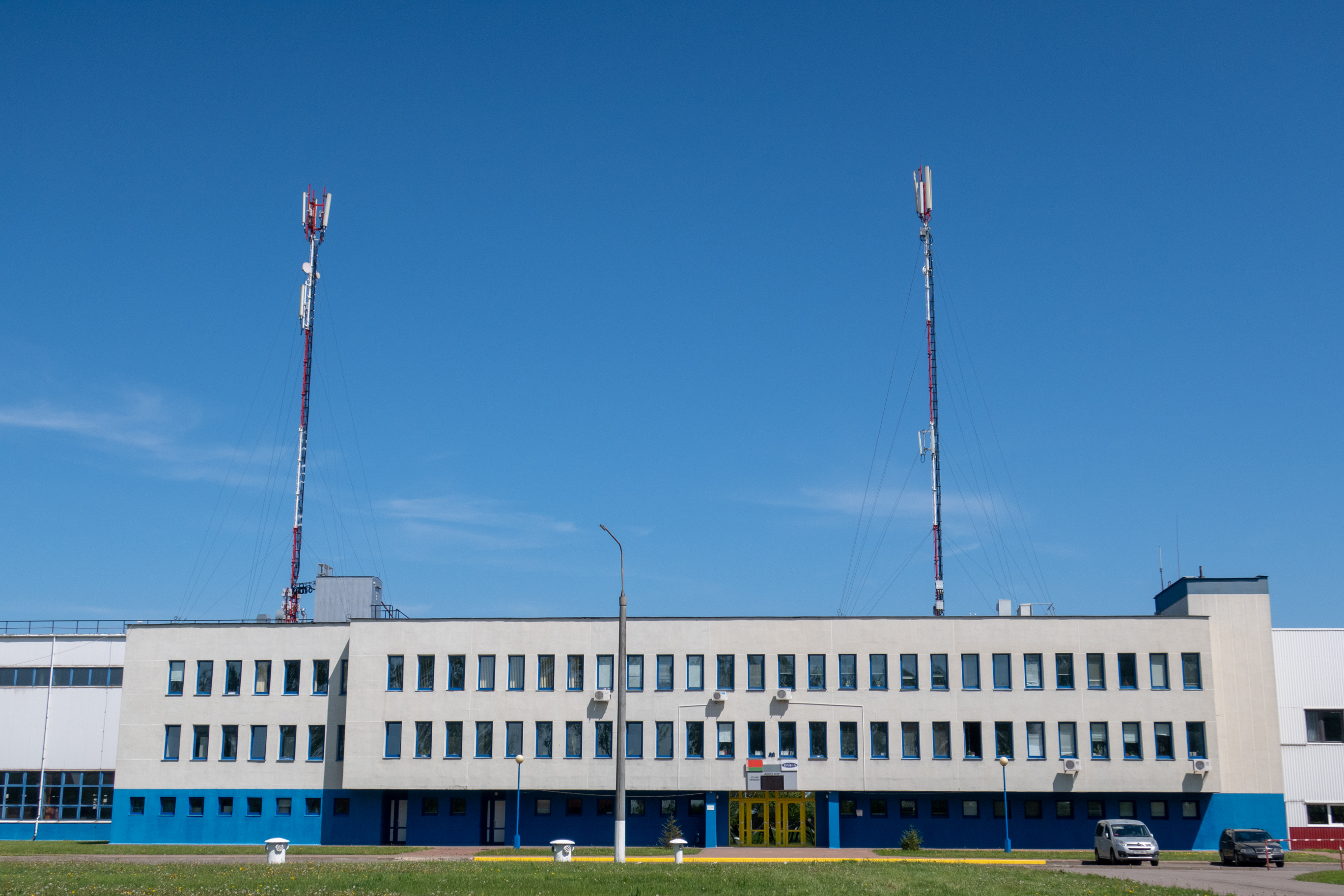 Car factory Unison (Minsk district, Belarus). Former Ford-Union joint venture